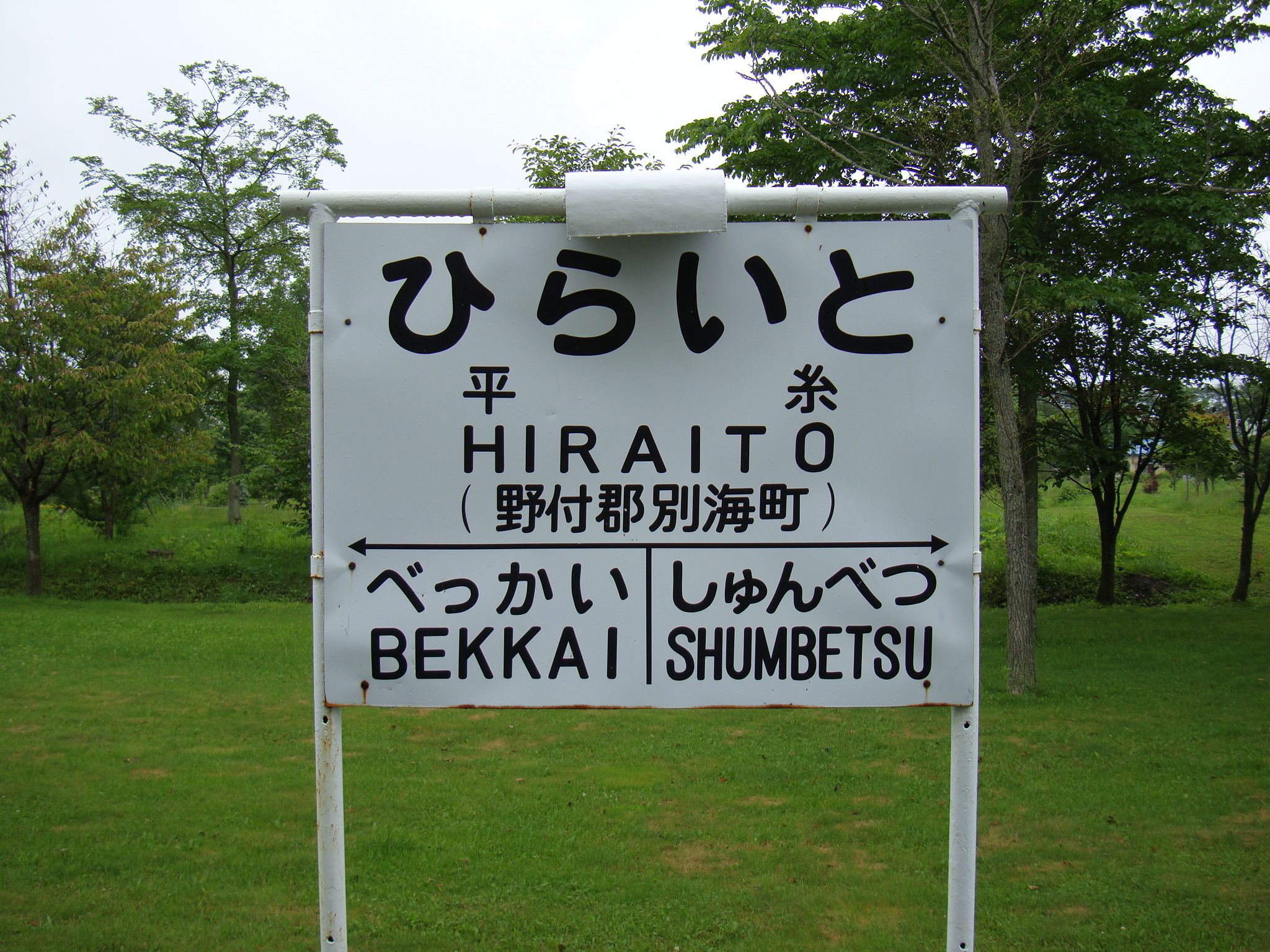 Hiraito Station Running in board on Bekkai railway Memorial park. Disused train stations on Shibetsu Line.